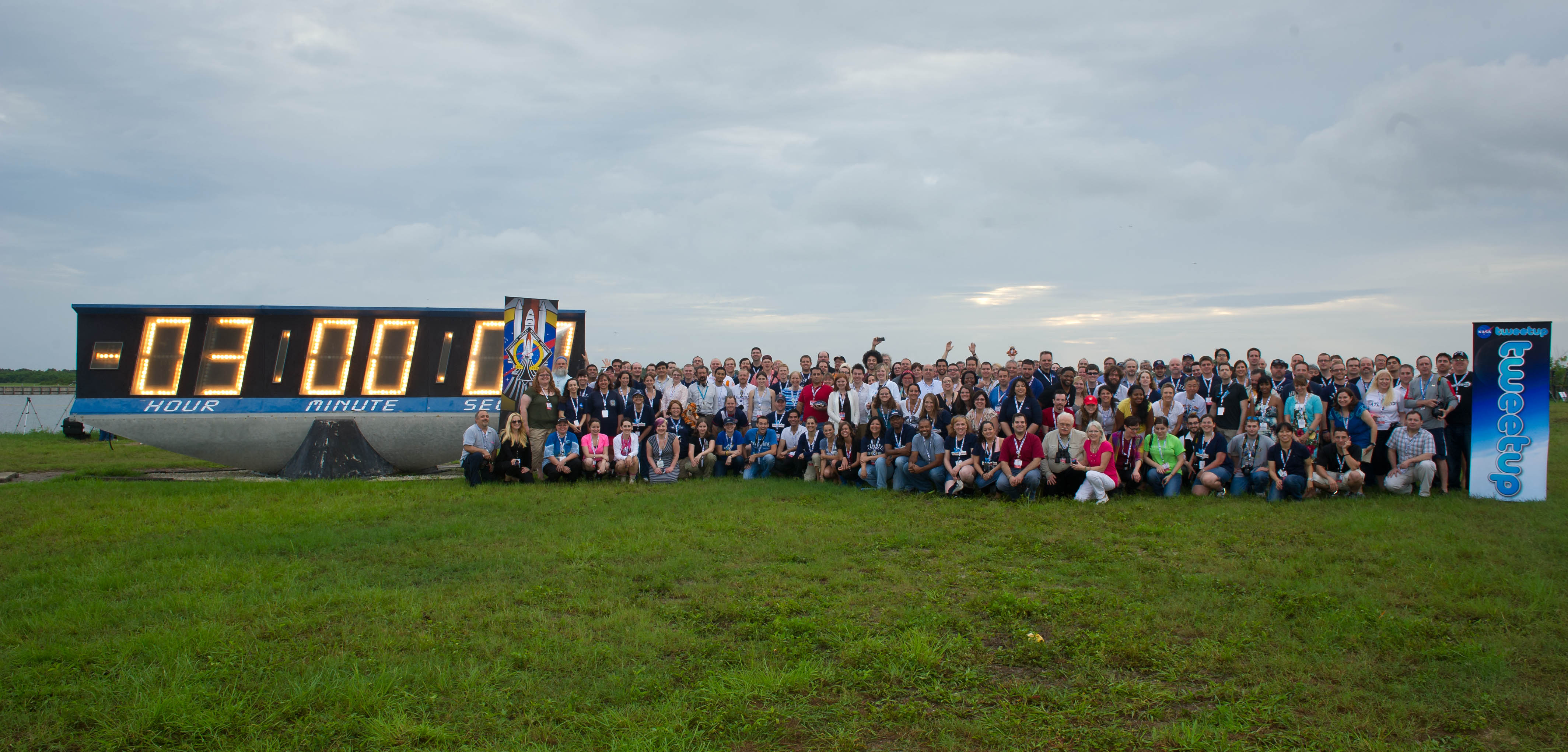 NASA Tweetup participants stand at the launch clock, Friday, July 8, 2011, prior to the launch of the space shuttle Atlantis (STS-135) at Kennedy Space Center in Cape Canaveral, Fla.